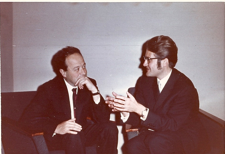 The byzantinists Jacob Lubarsky and Peter Schreiner.